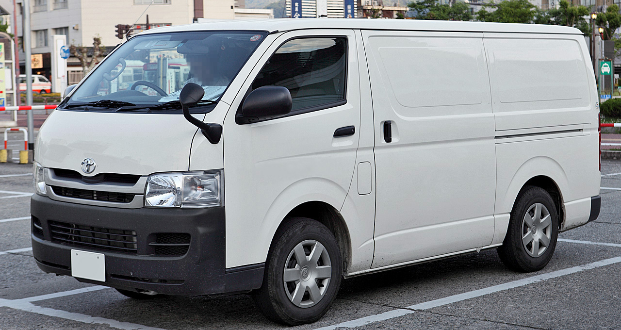 Toyota Hiace Super long cooling-van 2.0 DX ( KDH200V )